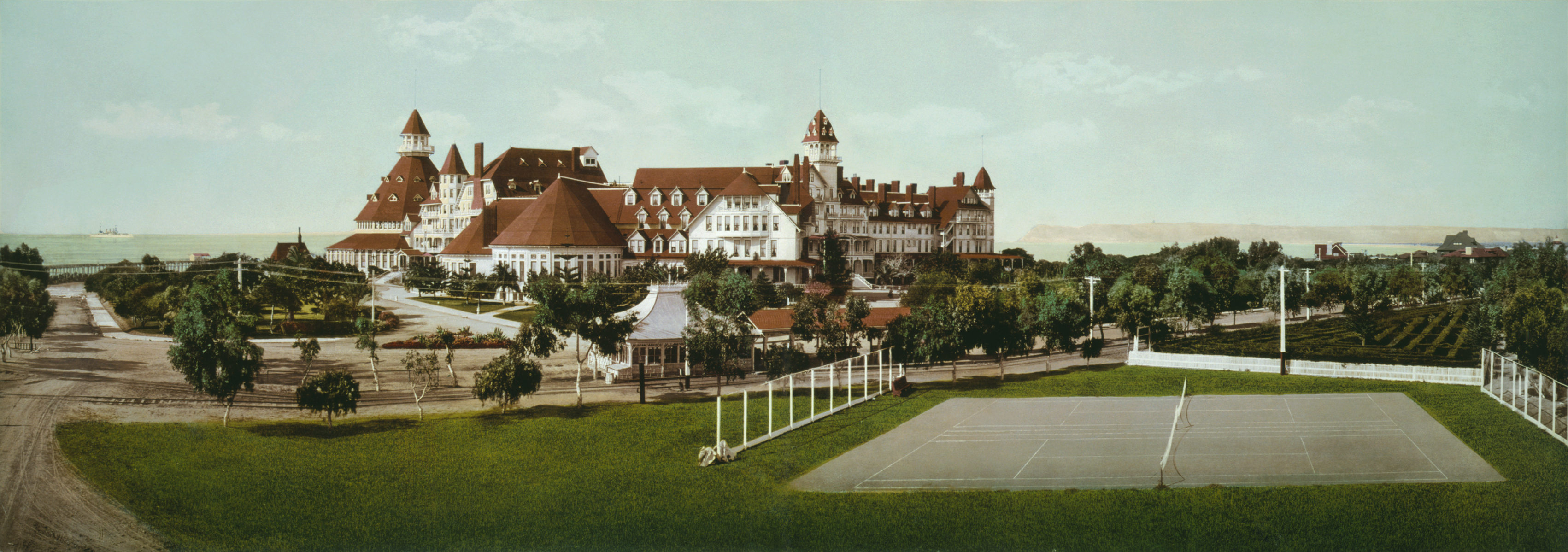 Hotel del Coronado, Coronado Beach, California photochrom print rephotographed on slide film for preservation purposes